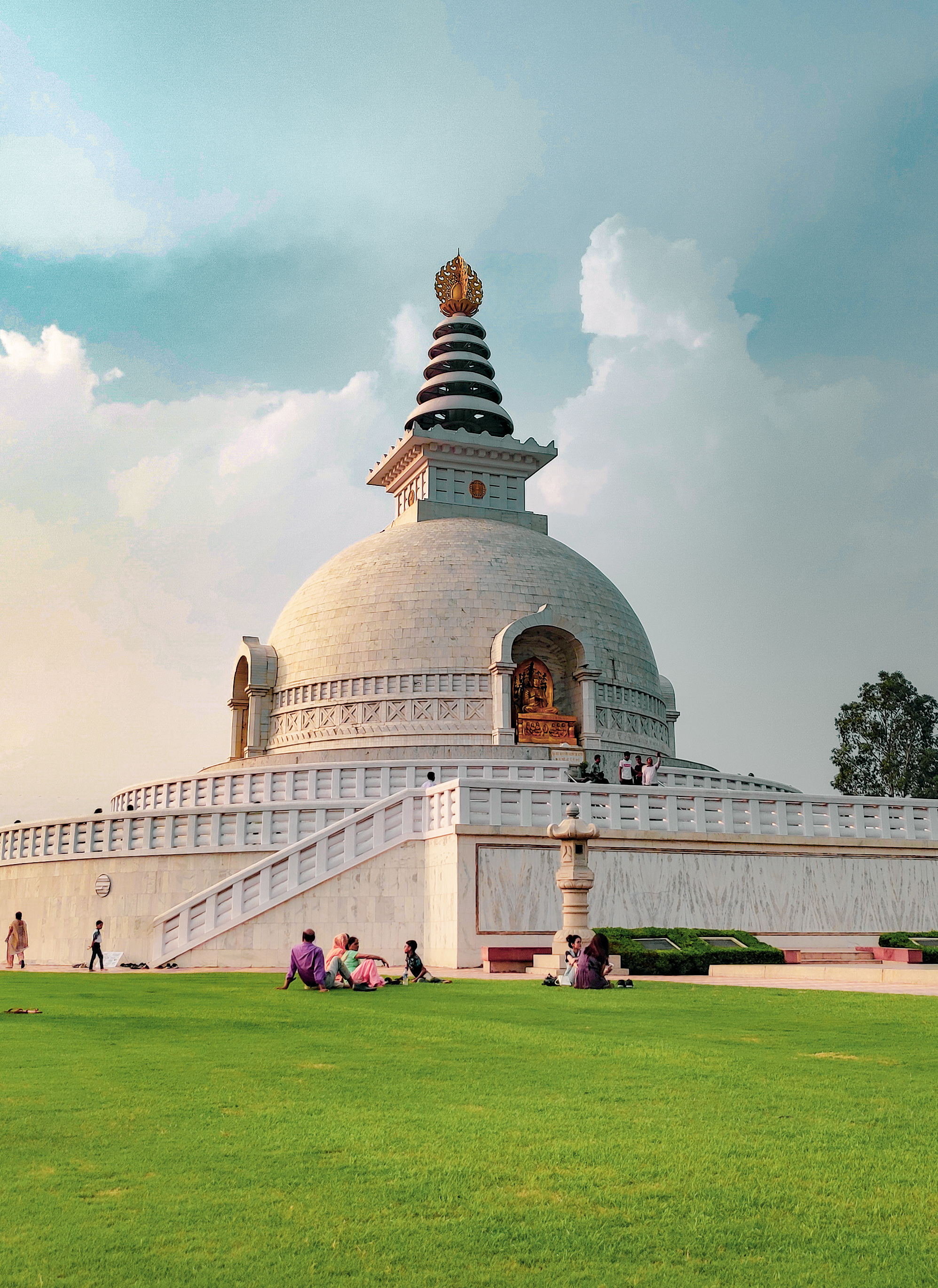 Vishwa Shanti Stupa in Wardha, Maharashtra